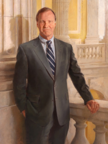 U.S. House of Representatives, Committee on Homeland Security, Chairman (2003-05) U.S. Representative Christopher Cox (R-CA), official portrait